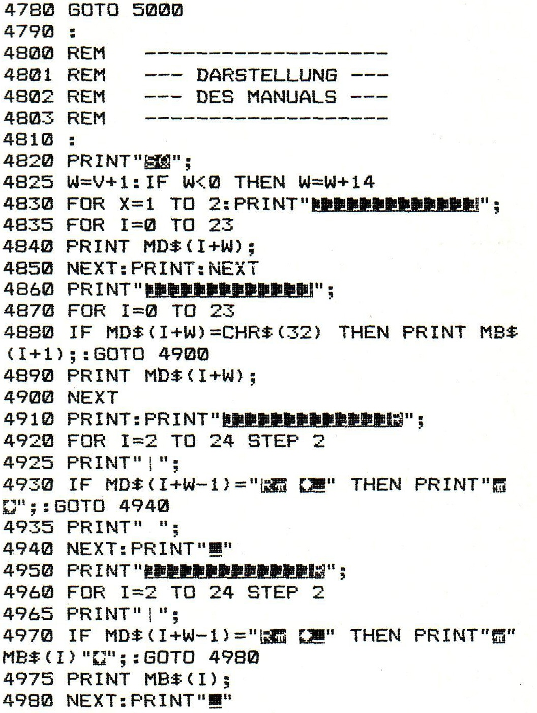 a list of commands for the Commodore C64